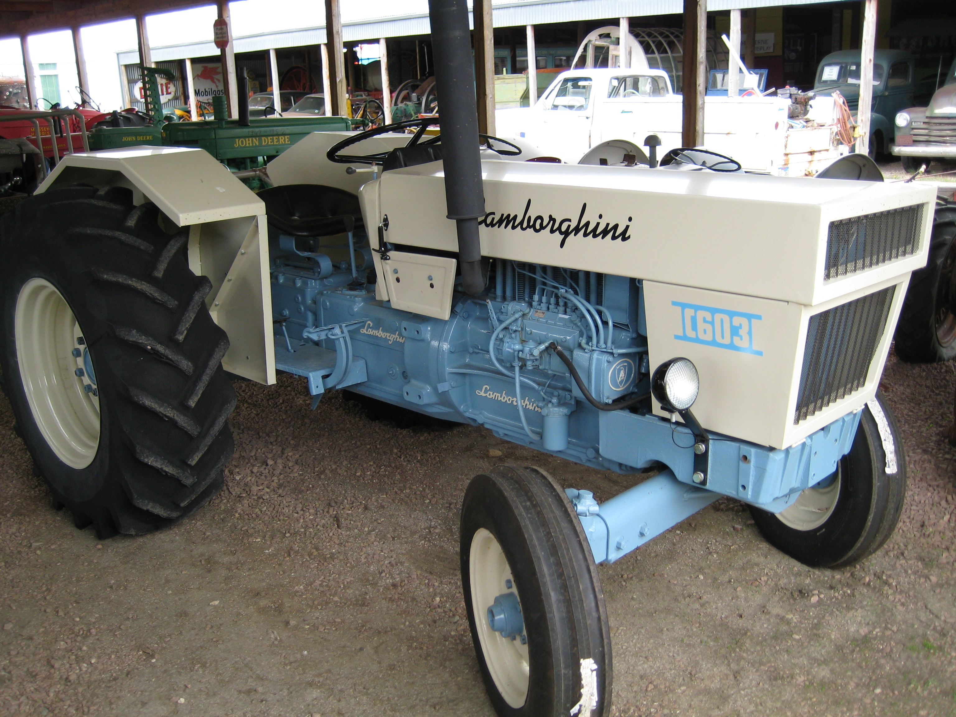 Lamborghini C 603 tractor. I had not seen this tractor at the museum before, freshly restored. Seen at the Pioneer Auto Show, Murdo, South Dakota.